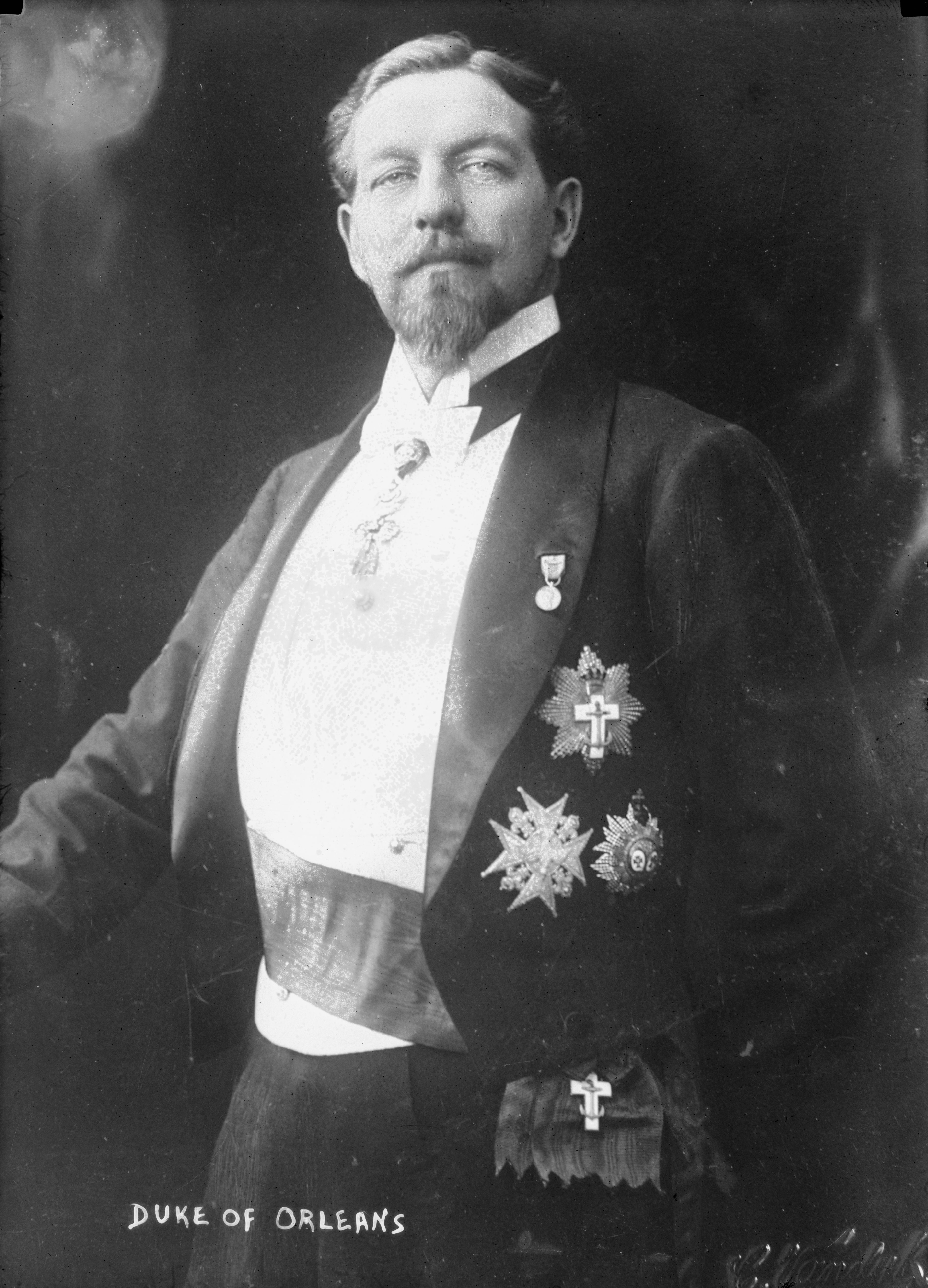 Philippe, duc d'Orléans (1869-1926; he is not named in the source, but it must be Philippe, the previous Duke of Orléans died in 1842)